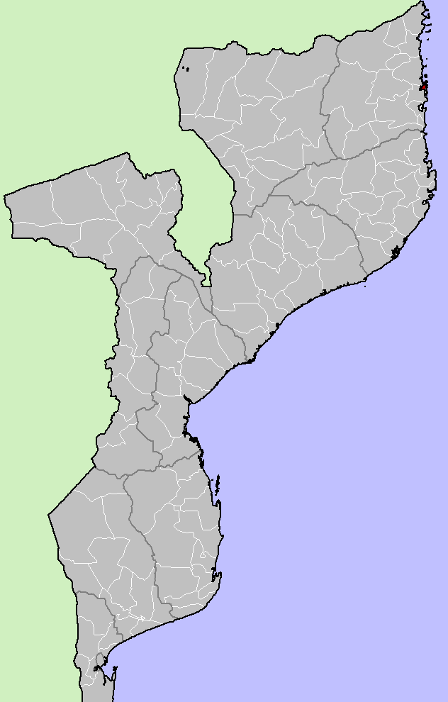 District locator in Mozambique